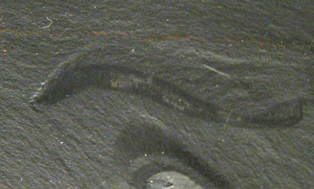 Fossil specimen of Pikaia from the Burgess Shale on display at the Smithsonian in Washington, DC. Image contrast enhanced. Image is ~4cm across.